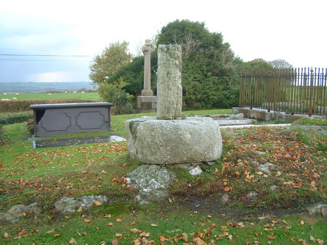 Base and broken shaft of the stone cross in St Caffo's parish churchyard, Llangaffo, Anglesey